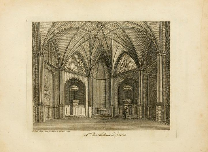 Interior of St Bartholomew-the-Less, City of London.